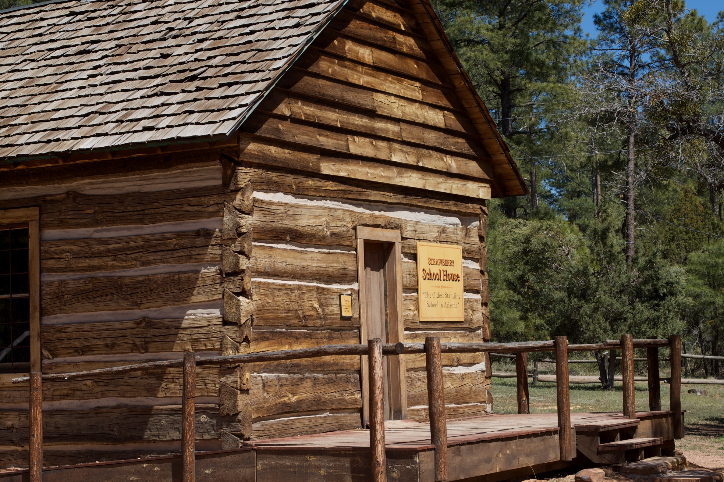 Oldest Standing School House in Arizona (to quote the sign which does not seem to require quotes).